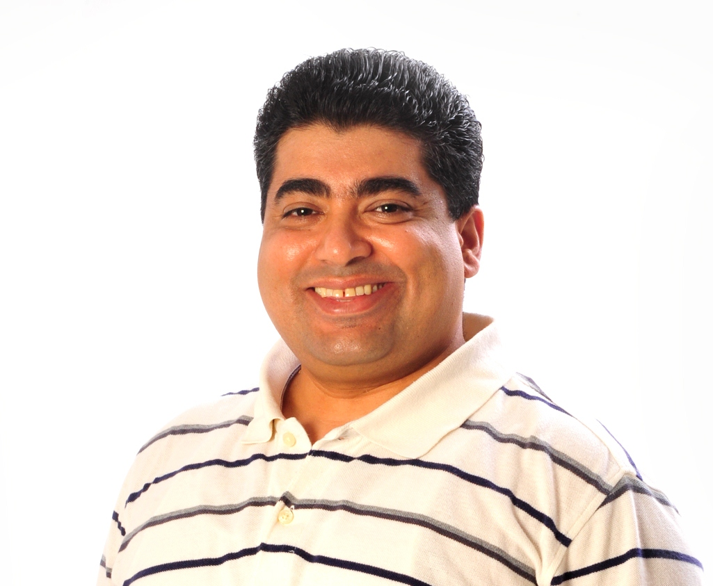 Ek Nath Dhakal's picture taken in 2013